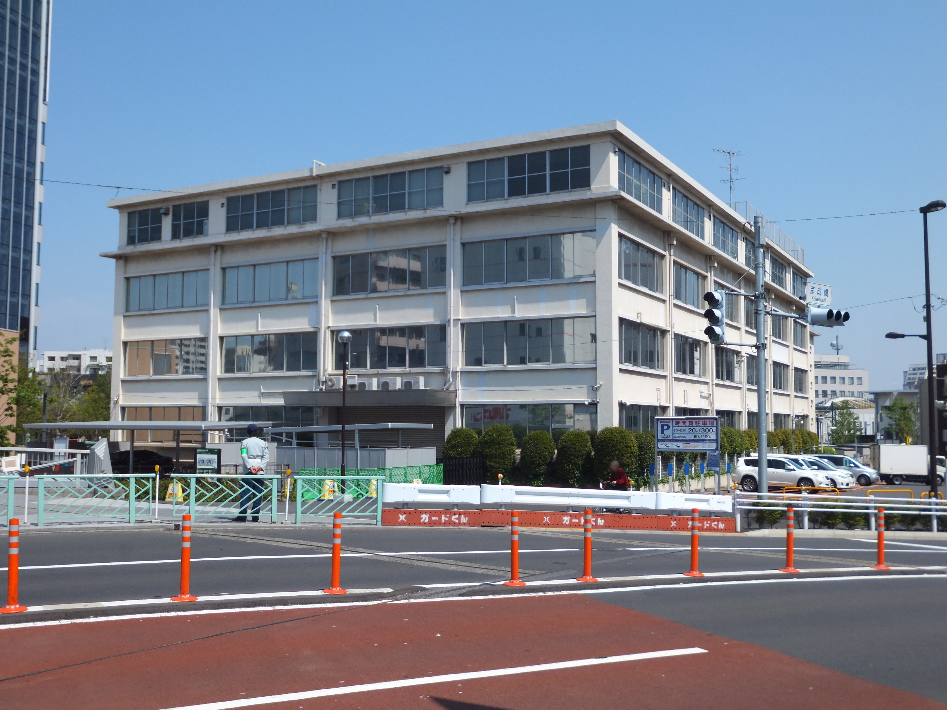 headquarters of Keisei Electric Railway, in Sumida, Tokyo